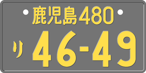 Japanese license plate for commercial light vehicles(550~660cm³). This sample license plate is registered to Kagoshima.